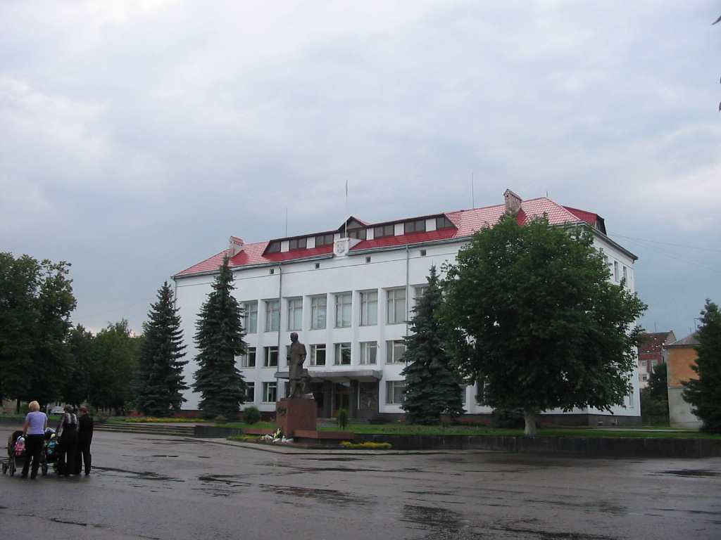 Brody Town Administartion, Brody, western Ukraine